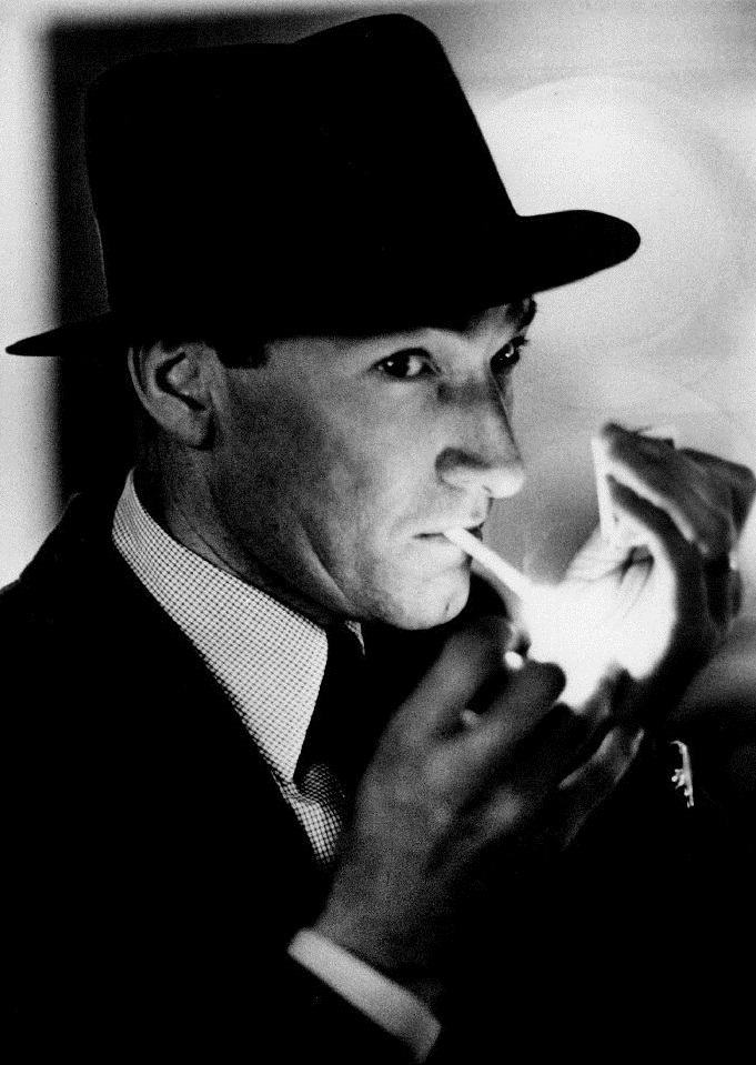 press photo of Ed Lauter for the TV movie The Last Hours Before Morning